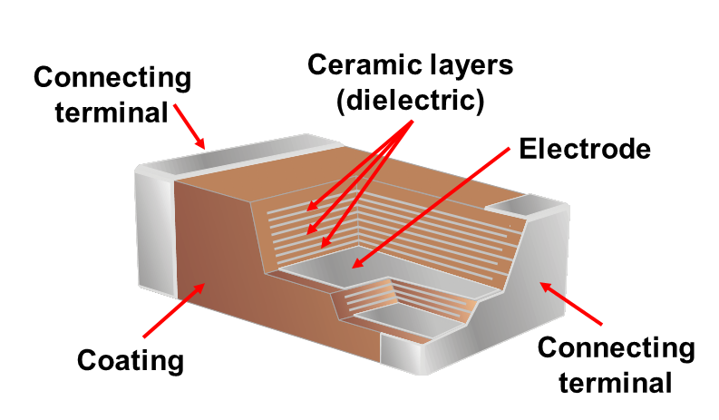 construction of a multilayer ceramic capacitor (MLCC)